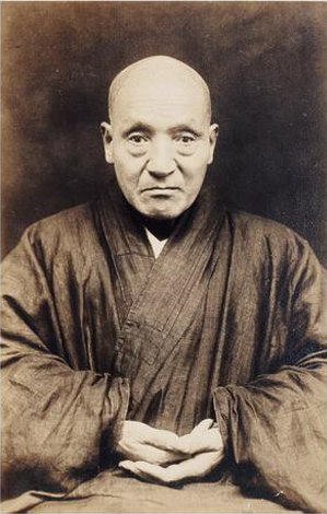 Yinguang (1861－1940)